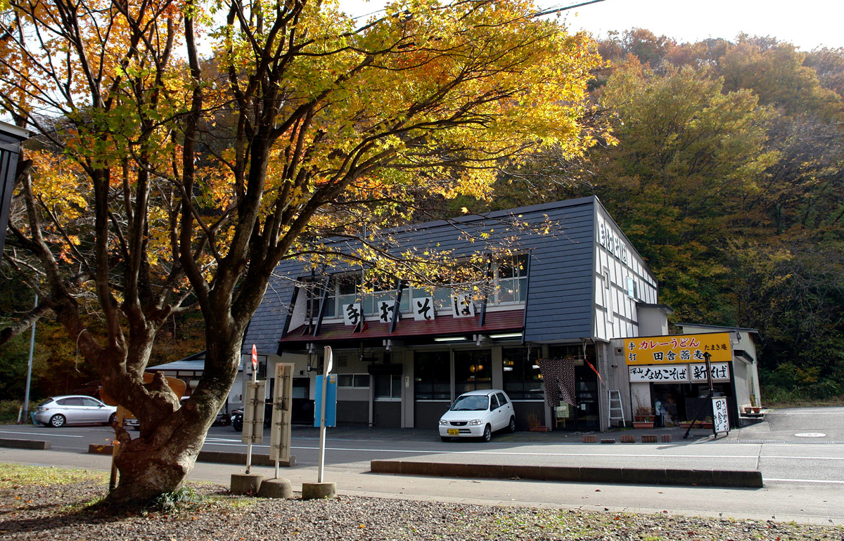 Bus stop at Akiu Great Falls